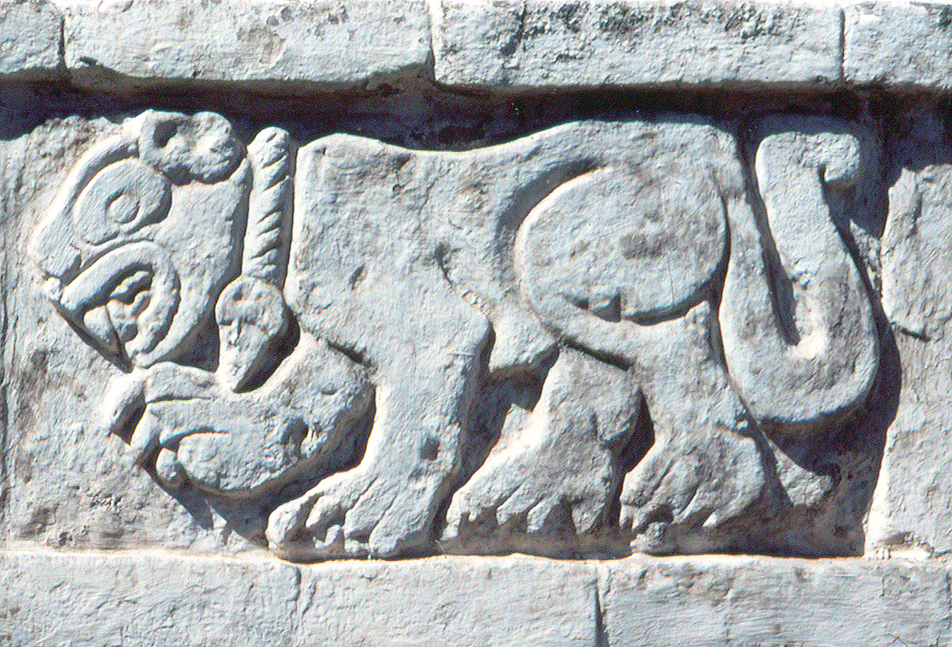 Tula, Hidalgo, Mexico: Pyramid of Tlahuizcalpanteuctli, procession of jaguars